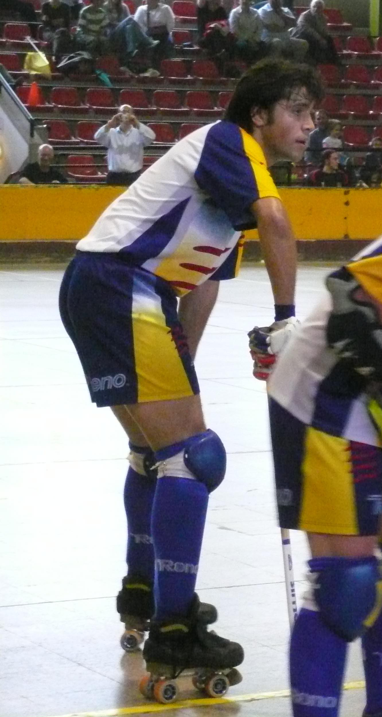 Cropped photo of Jordi Bargalló, Catalan roller hockey player, as member of the Catalonia roller hockey national team against Capellades HC in a friendly match played in Capellades the 31st May of 2008.